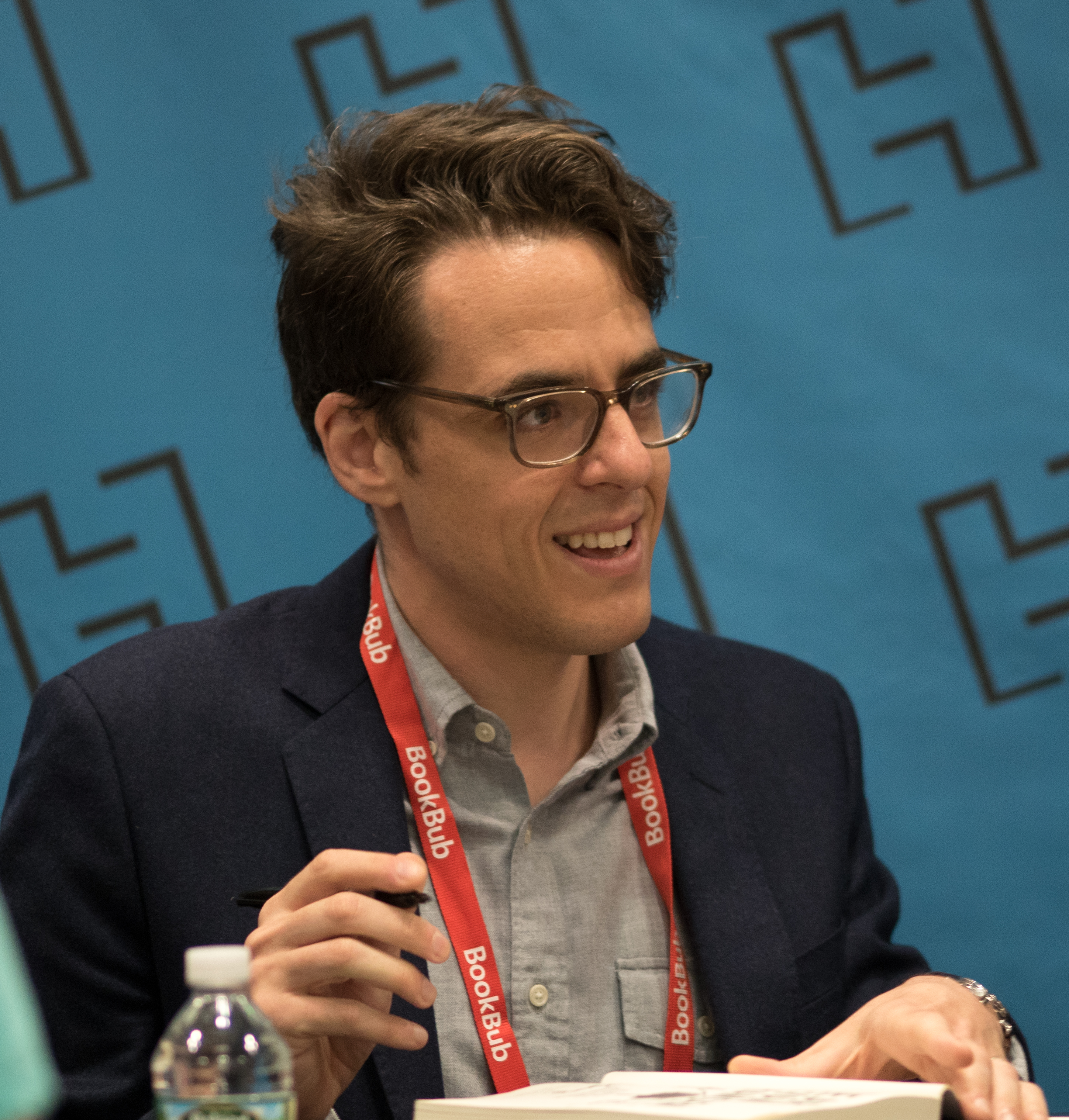 Steven Levenson BookExpo America 2018 at the Javits Convention Center in New York City.